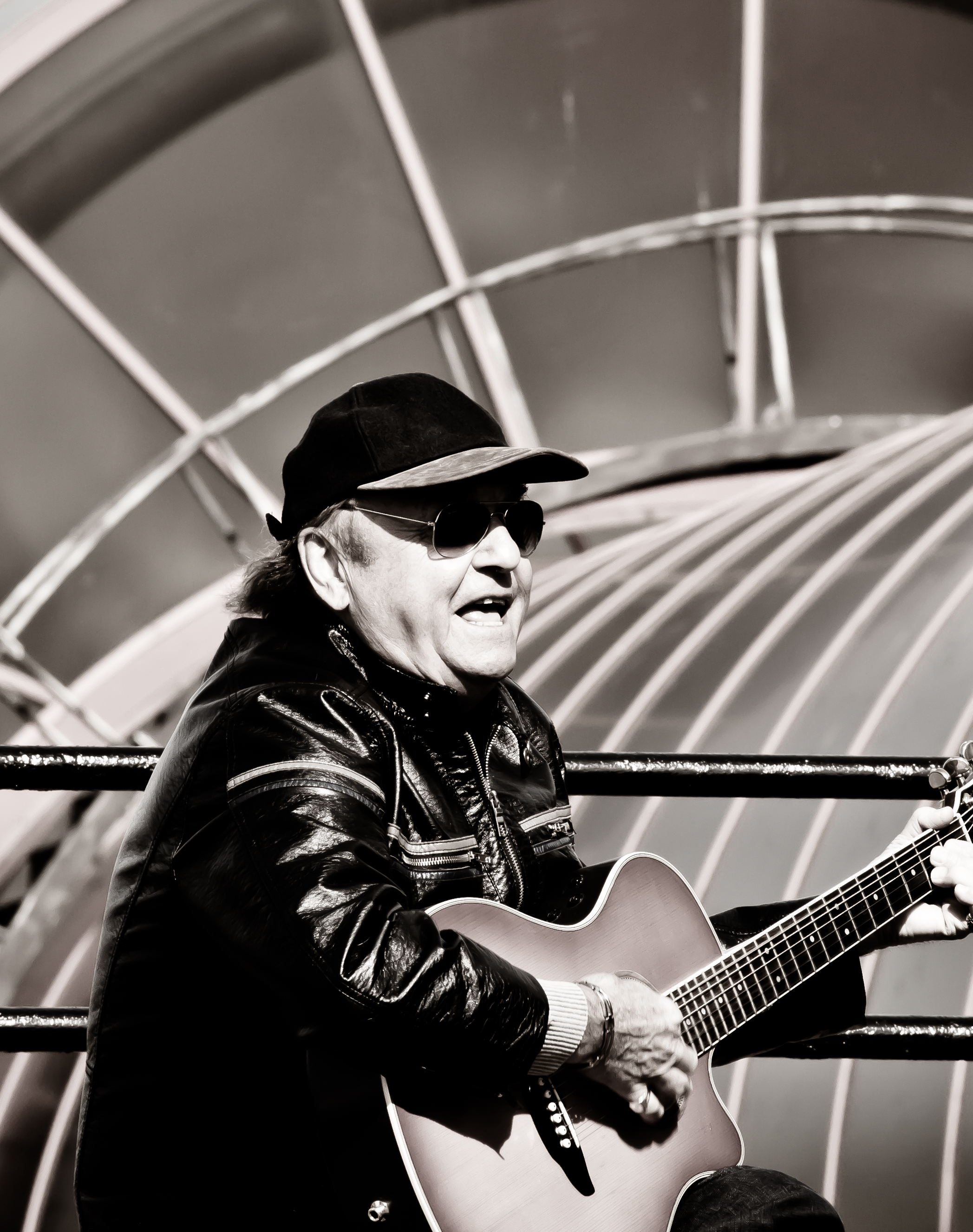 Gerry Marsden plays for Swedish TV at Woodside Ferry Terminal, River Mersey, Birkenhead.